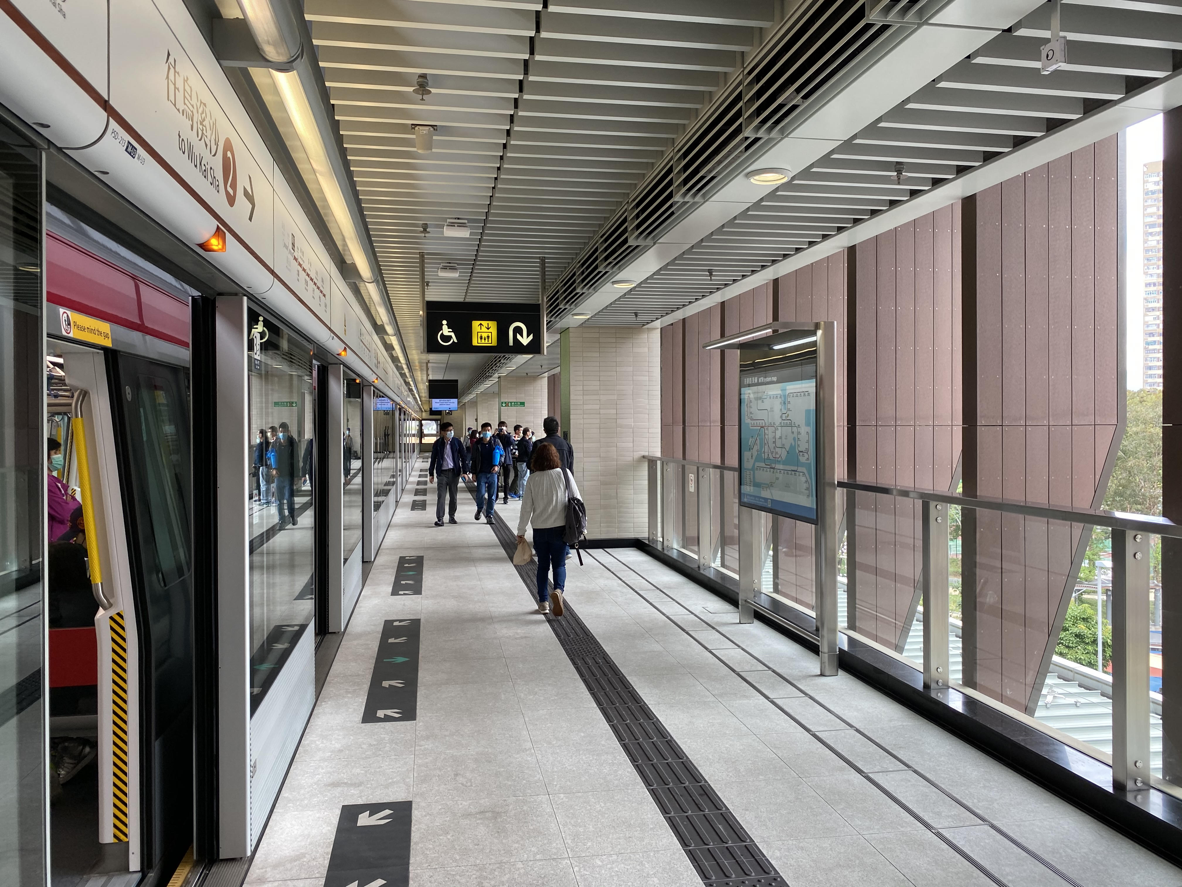 中文（香港）: This photo is taken in Hin Keng Station.